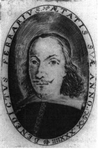 Benedetto Ferrari (1603–1681), Italian composer and theorbo virtuoso.